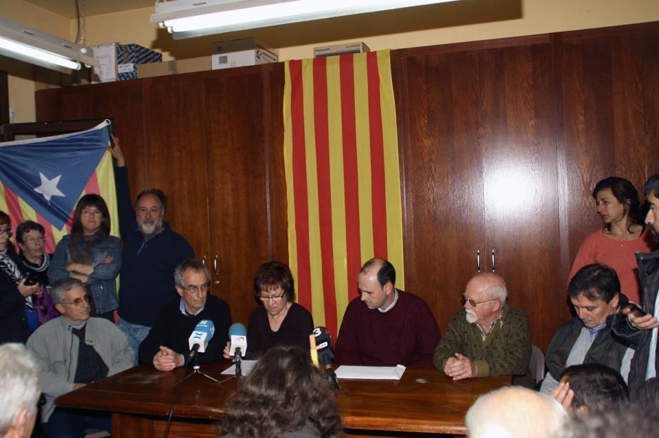 The Plenary of the censure motion of March 30, sitting at the table from left: Joan Font (SI), Jordi Fornas (SI), M. Teresa Valls (secretary), Mateu C. De Sobregrau (CiU), Enric Bosch (CiU) and David Fernandez (CiU)